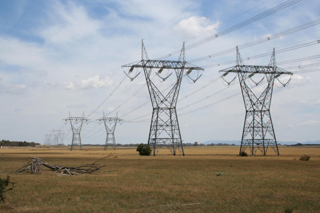 Looking west down 500 kV electricity transmission lines in Victoria, Australia. Running to the north of the outer Melbou8rne suburb of Craigieburn, it forms part of the main 'ring main' around Melbourne.